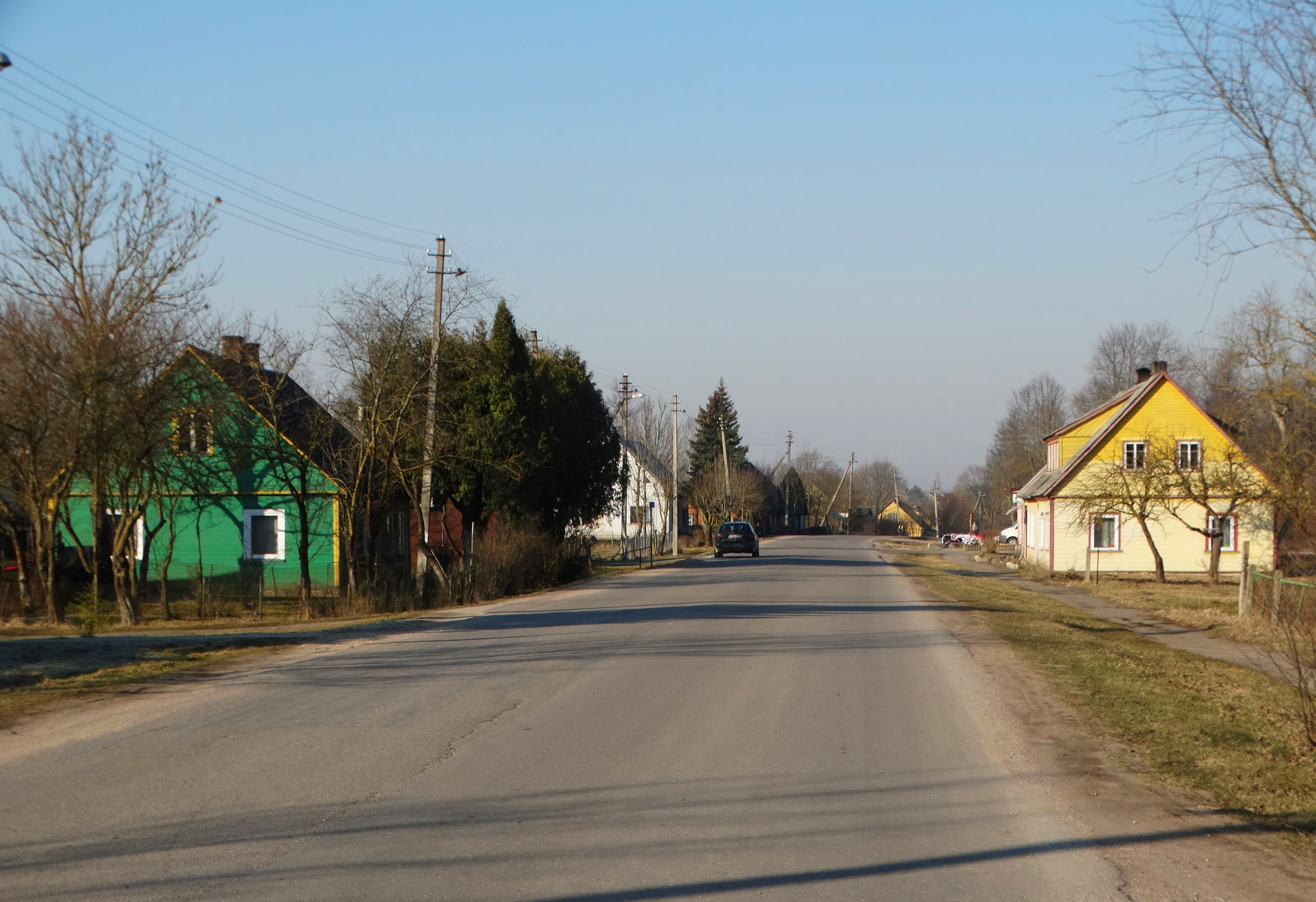 Upyna, Telšiai district, Lithuania